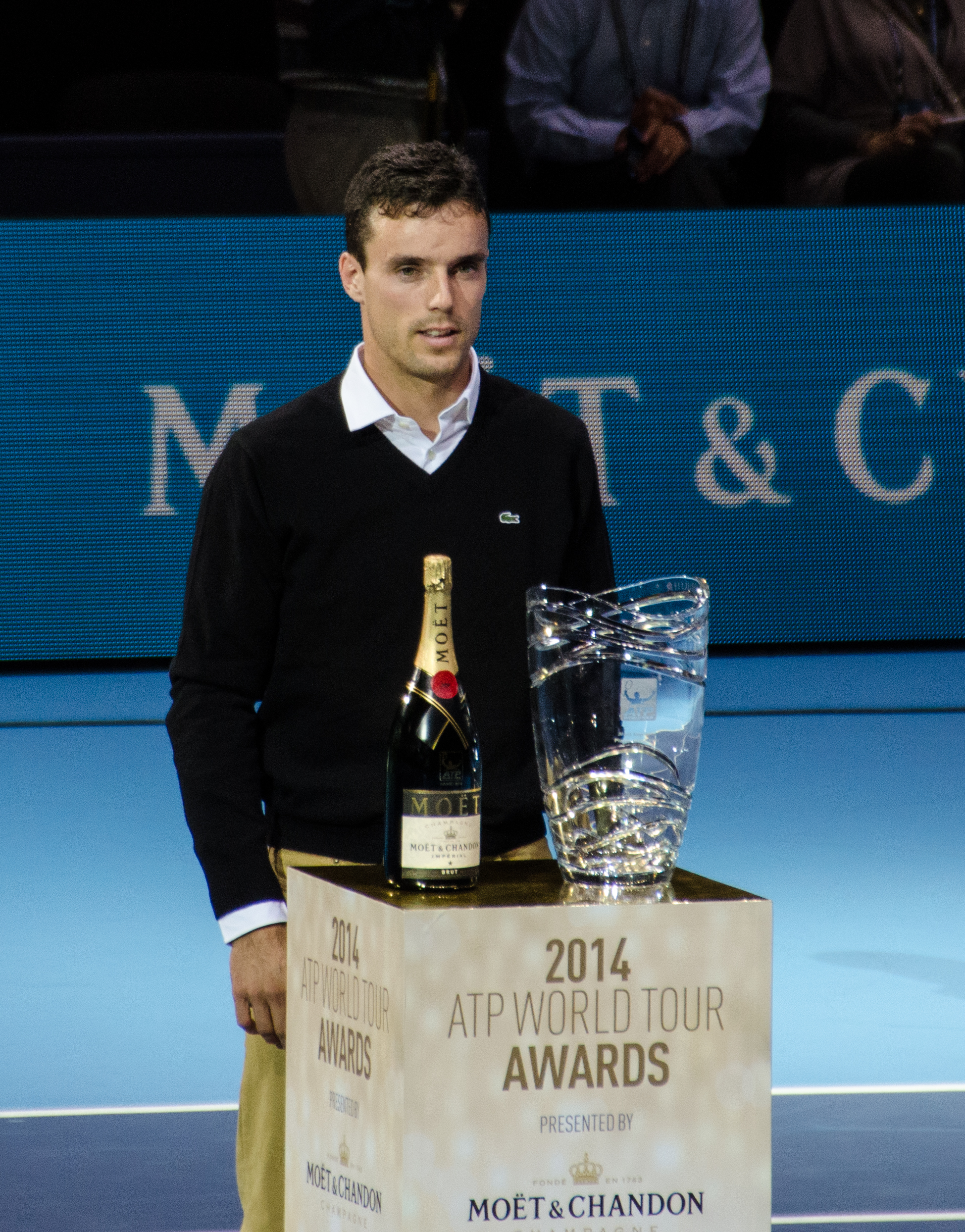 This is a photo of a tennis game at the ATP World Tour Finals.